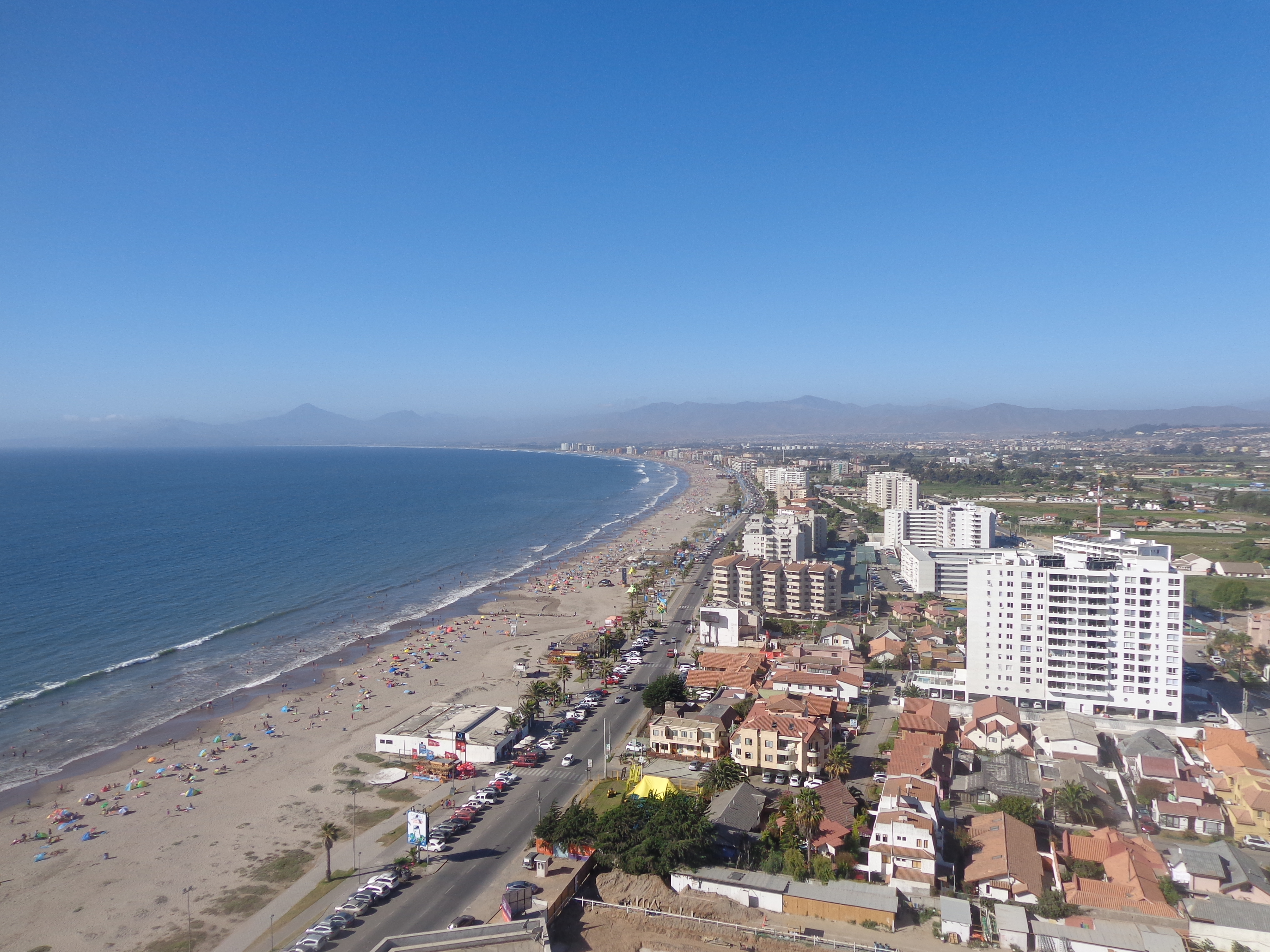 Vista de la playa de la serena